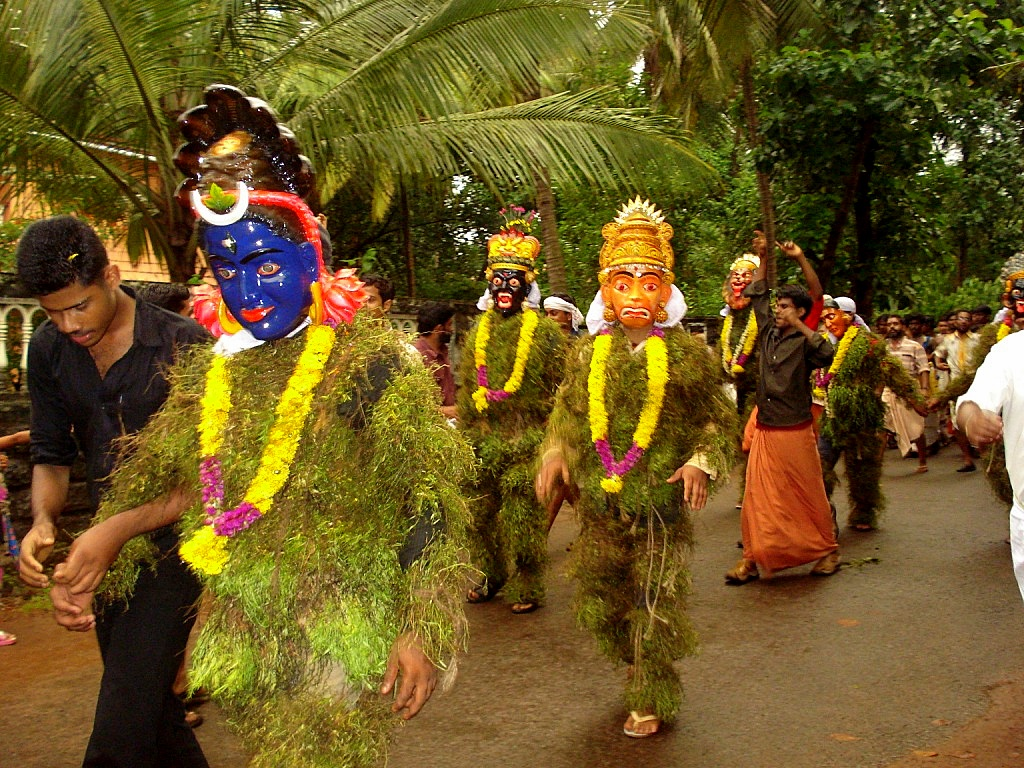 Kummattikali. shot in thrissur